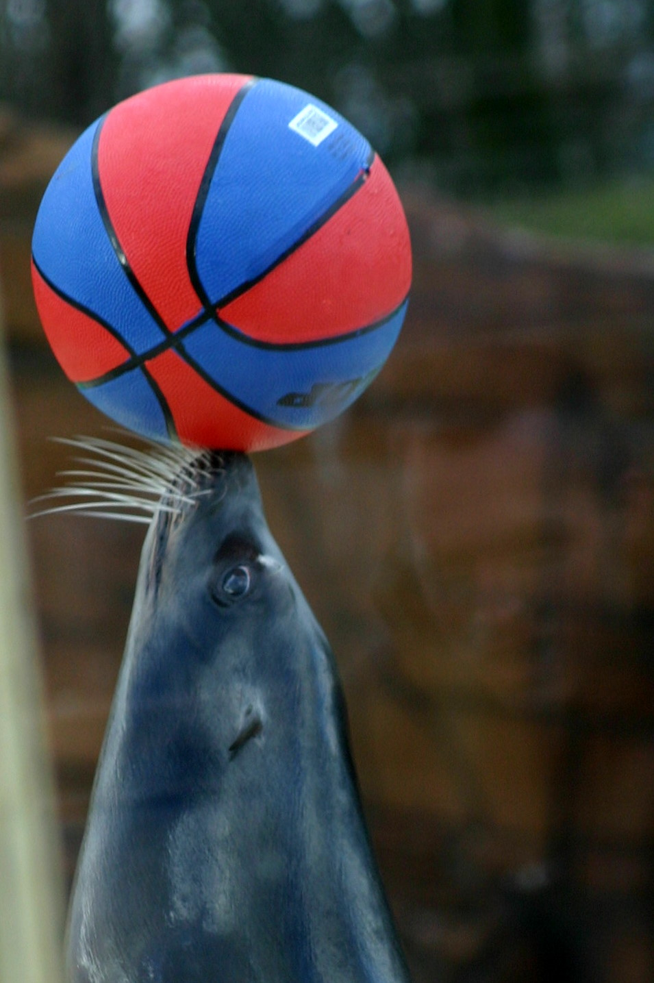 A female California Sea Lion balancing a ball on its nose at a display at Blackpool Zoo, Lancashire, England.